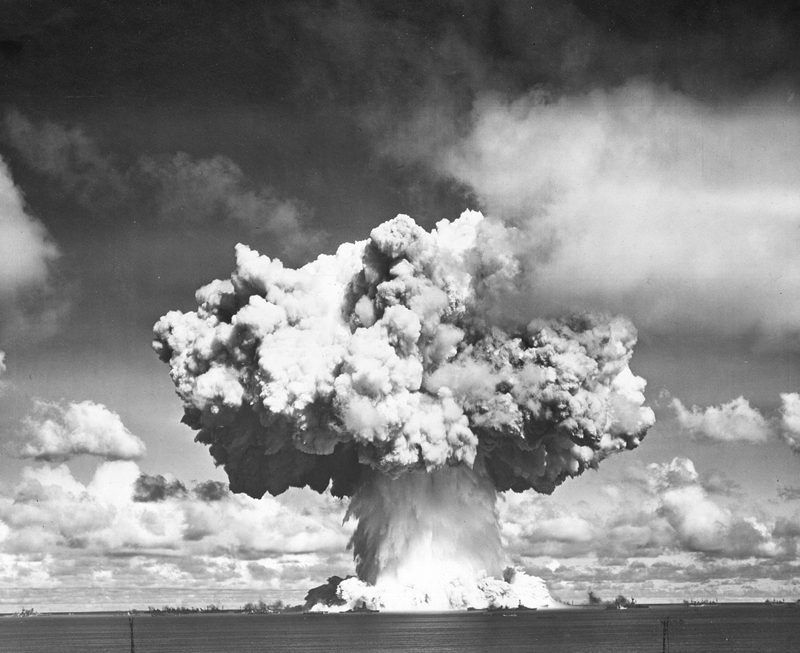 Operation Crossroads "Baker" shot, 1946, Bikini Atoll. Photo is either a U.S. Army or Navy shot. Compare cloud with Image:Operation Crossroads Baker (wide).jpg.